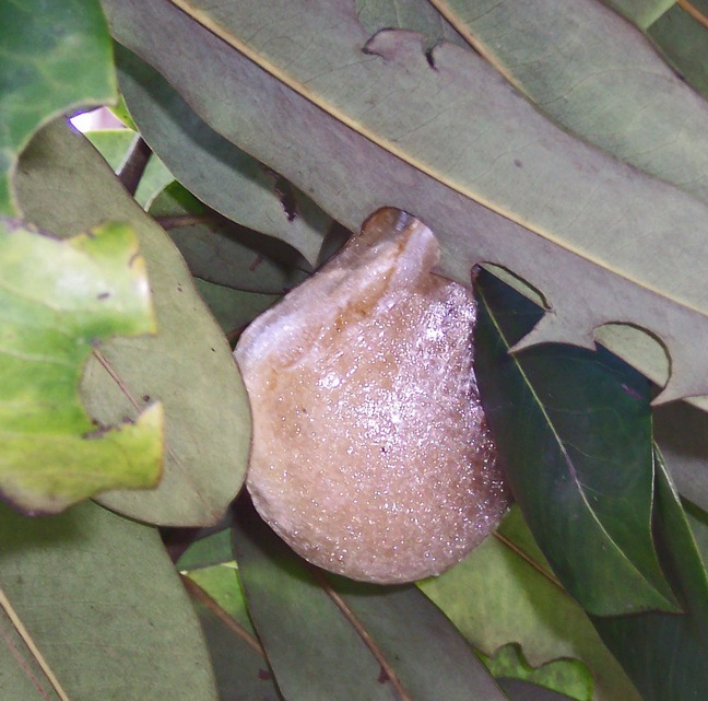 Polypedates leucomystax egg-foam, from Darmaga, Bogor, West Java, Indonesia